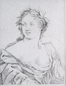 Anon. (after Natalino da Murano?). Portrait of Gaspara Stampa, frontispiece fron edition of 1554.